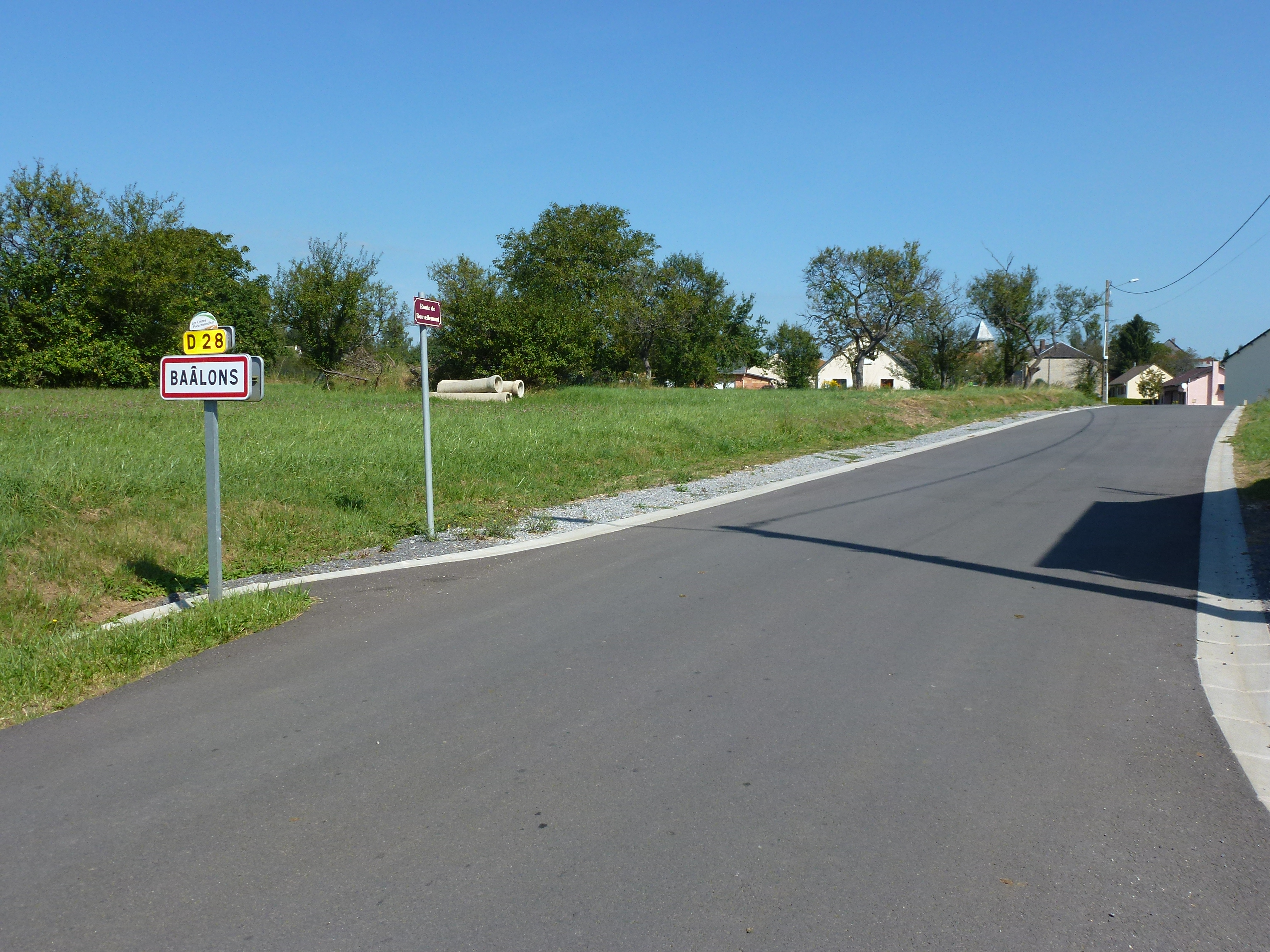 Baâlons (Ardennes) city limit sign